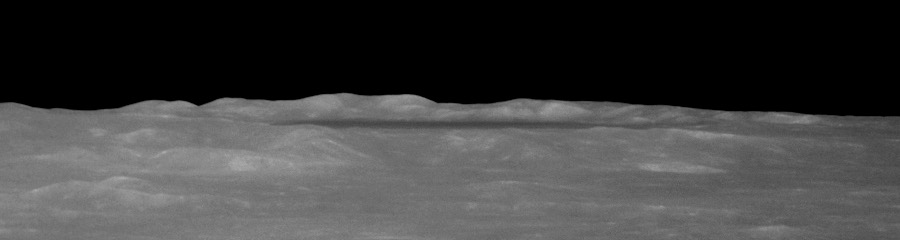 Highly oblique view of Julius Caesar crater, facing north, on the moon. The dark line near the horizon is the mare-flooded portion of the crater's floor.